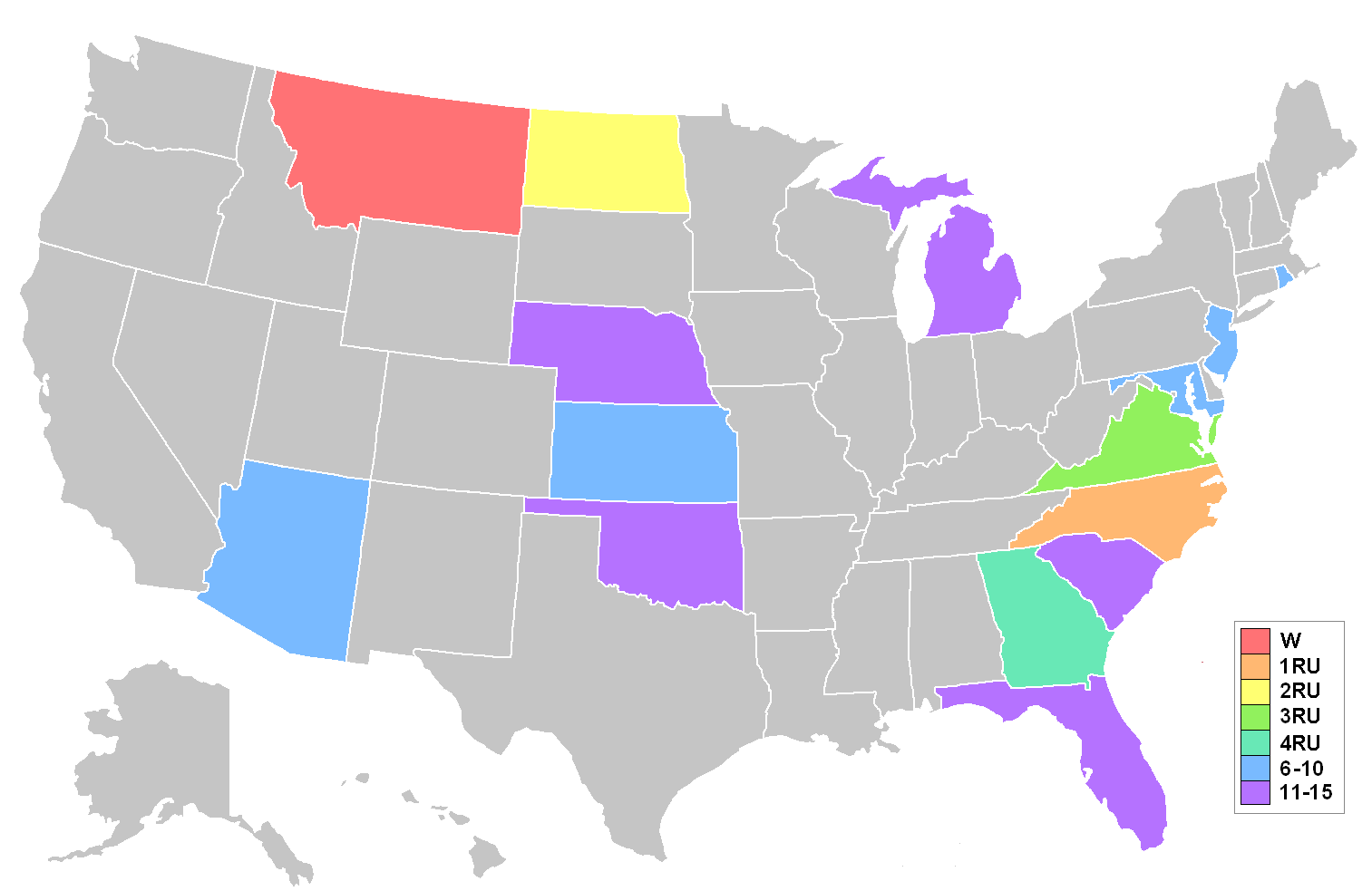 Map showing placements at the Miss Teen USA 2006 pageant. Key on graphic shows colour coding for break down of placements.